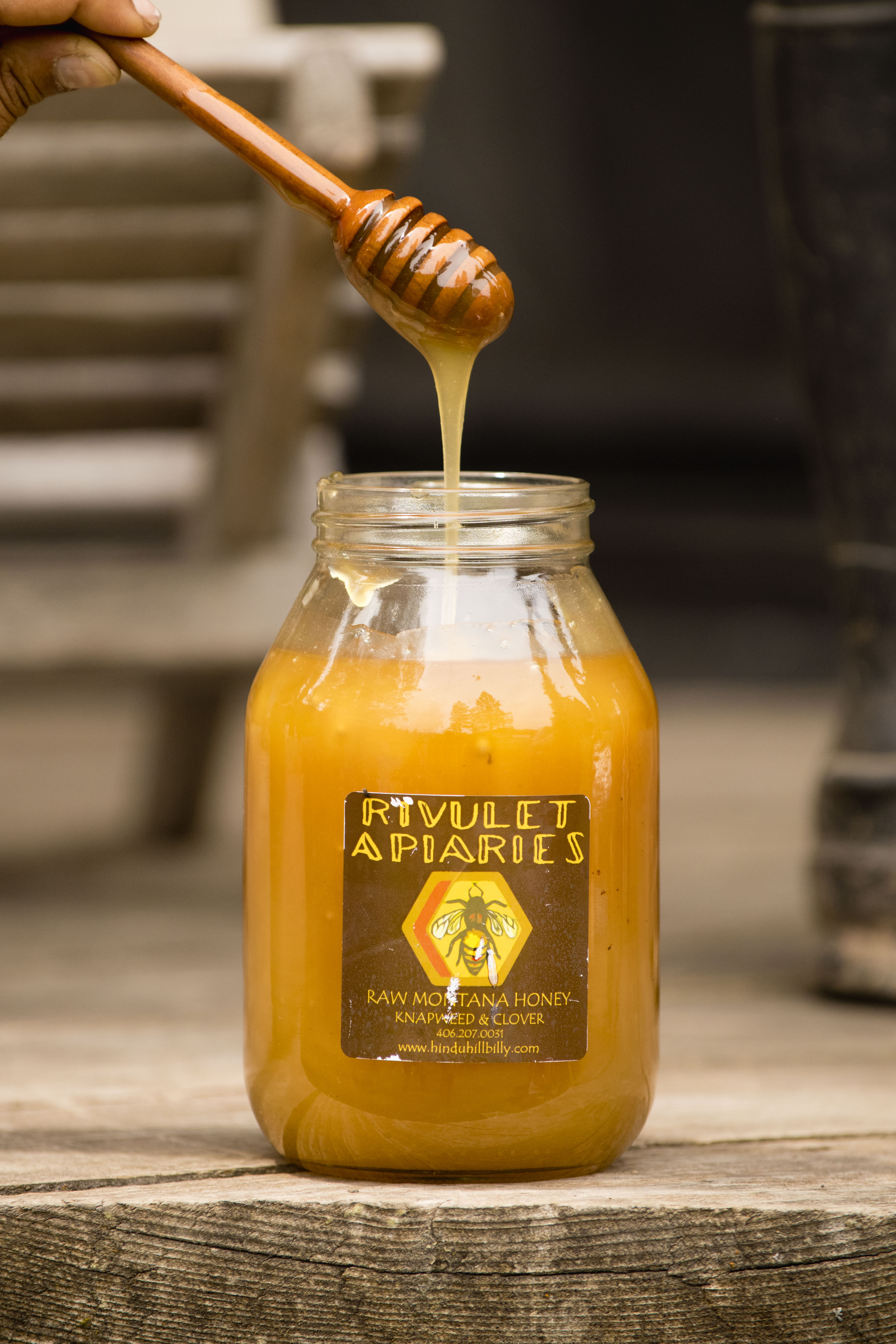 Kavita and Justin Bay own Rivulet Apiaries and Hindu Hillbilly Farms near Rivulet, Mont. NRCS worked with the Bays to combat future declines in honey bee populations by helping them to implement conservation practices that provide forage for honey bees while enhancing habitat for other pollinators and wildlife and improving the quality of water, air and soil. June 2017. Mineral County.